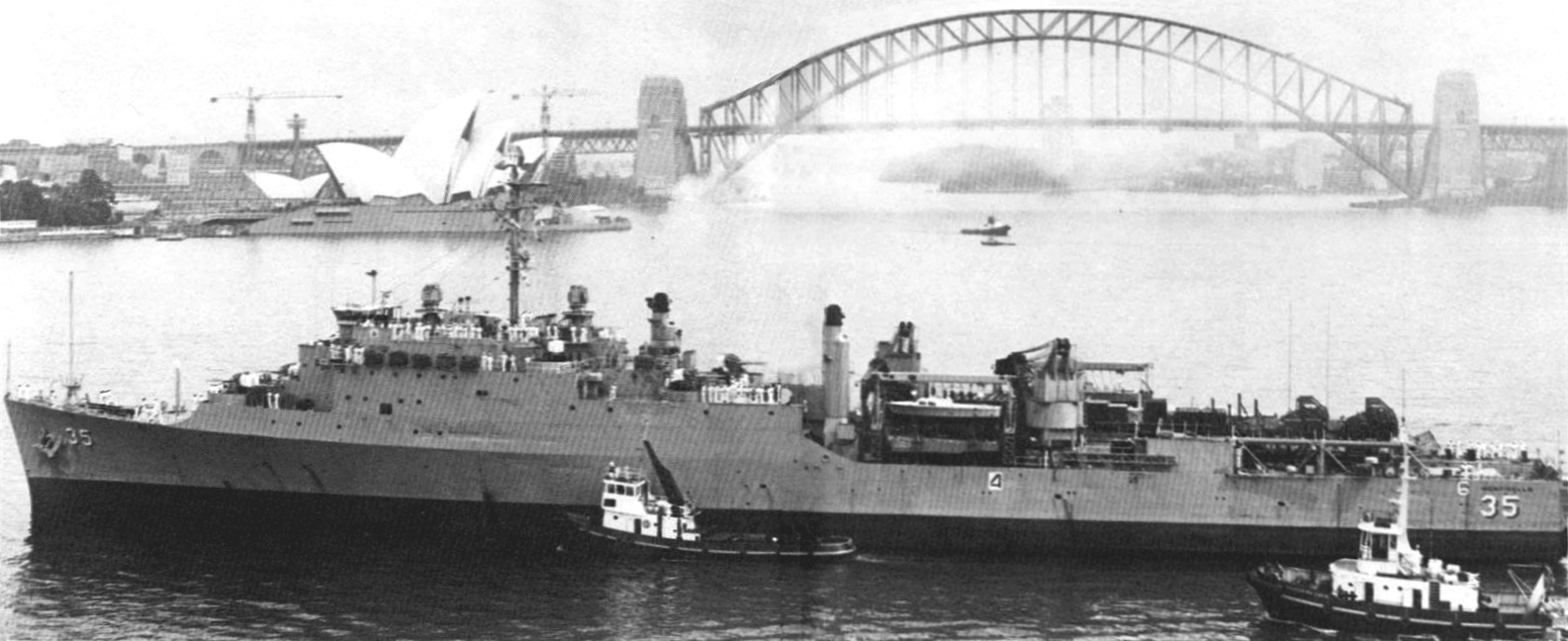 The U.S. Navy dock landing ship USS Monticello (LSD-35) at Sydney, Australia, in February 1971.